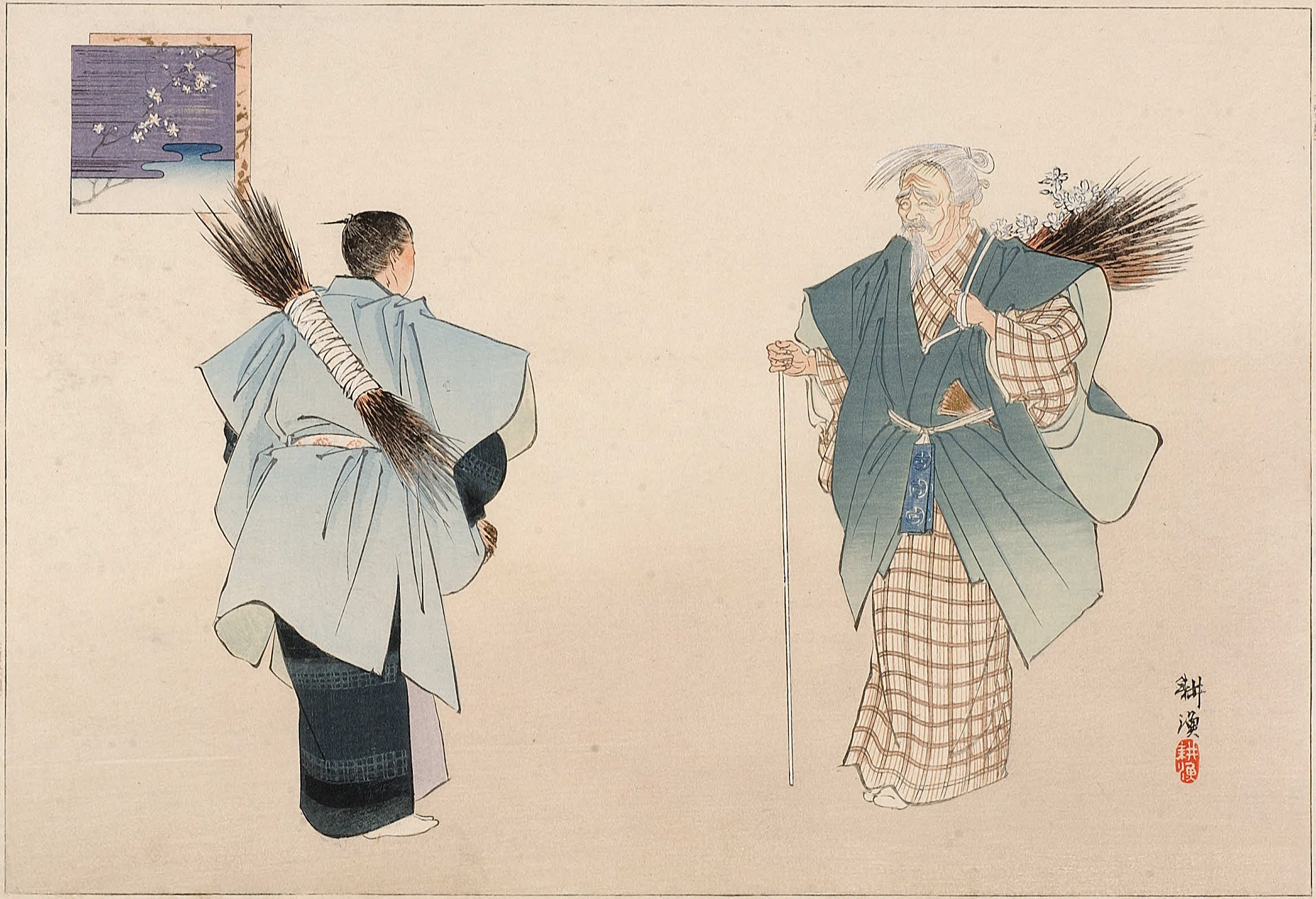 Scene form No-play "ShigA"